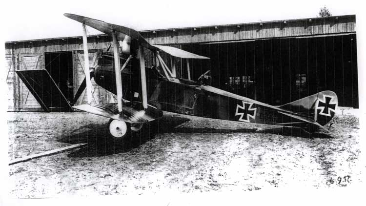 Rumpler C.IV Rumpler C.IV serial number 1463/17. of Georg Seibert and Max Psaar.